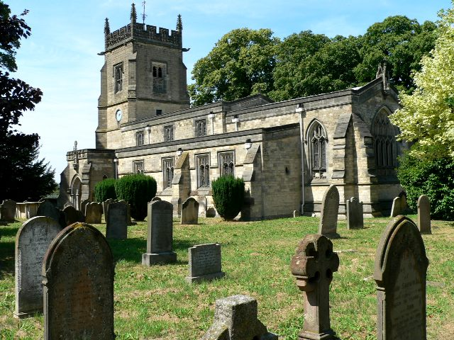 All Saints' parish church, Slingsby, North Yorkshire, seen from the southeast